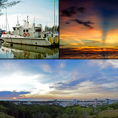 A composite image of icons of Miri from these images.